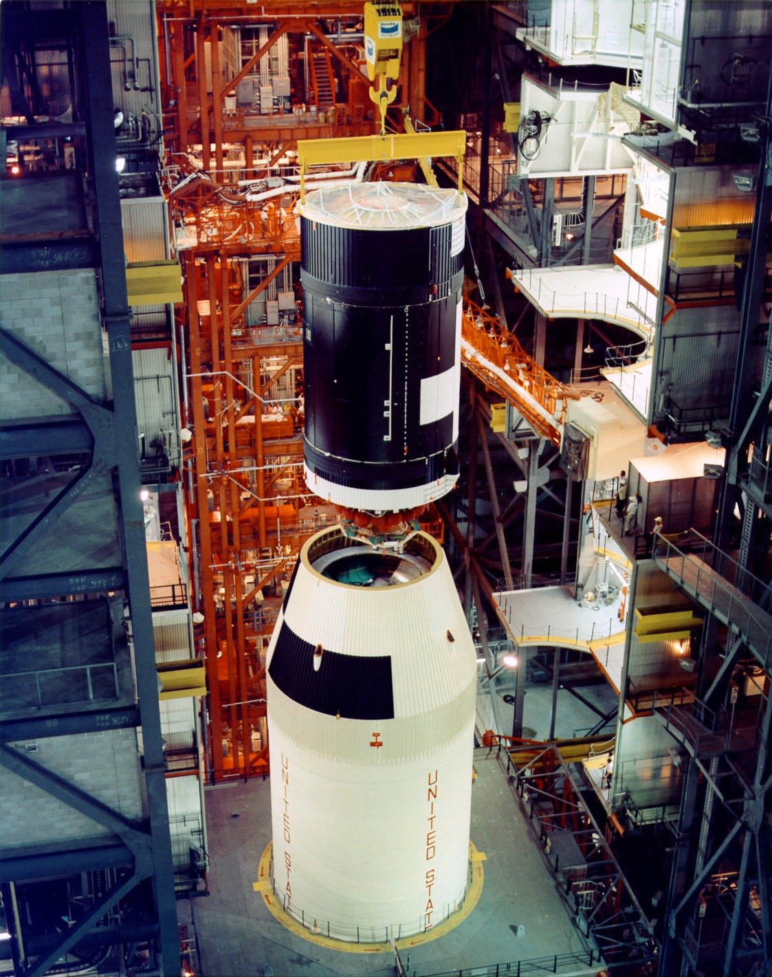 The Skylab space station is mated to a Saturn V rocket in the Vehicle Assembly Building on Sept. 29, 1972.